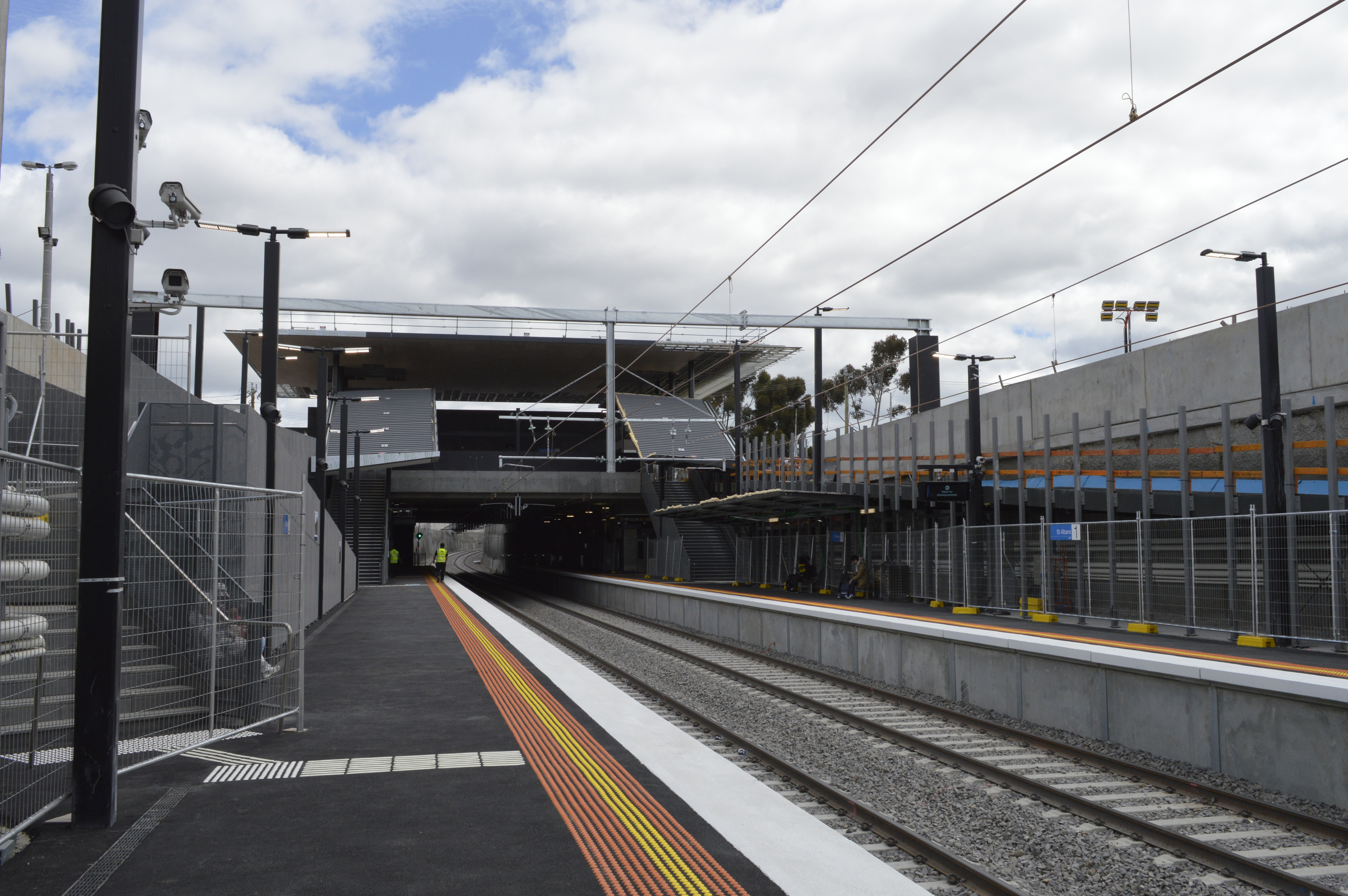 Looking north in November 2016, taken on the first day of opening.